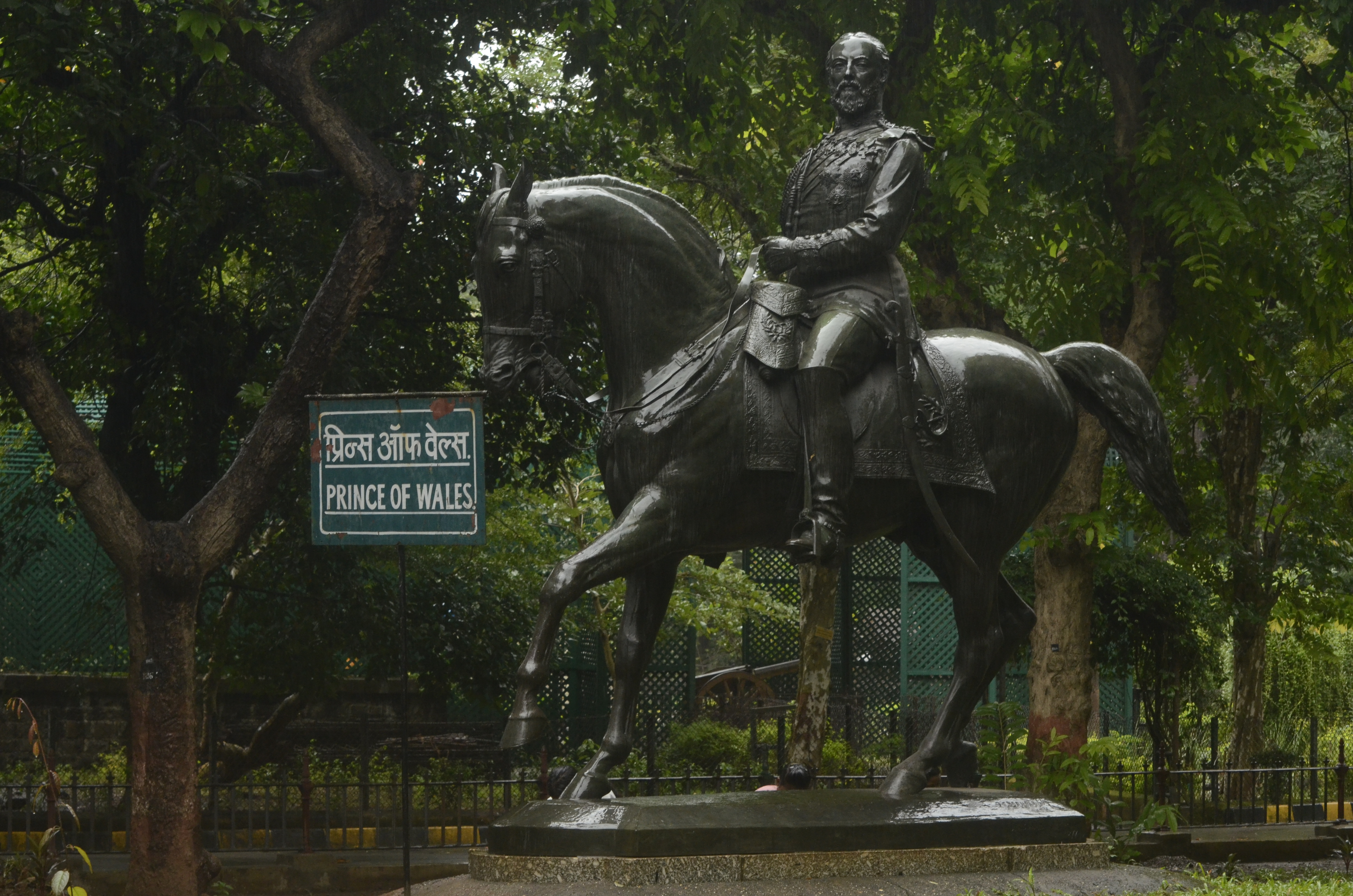 Images from Dr. Bhau Daji Lad Museum,Mumbai,Maharashtra.Prince of Wales